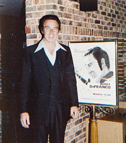 Buddy DeFranco (Village Jazz Lounge,Disneyworld late 70's)